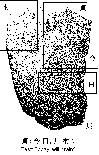 Oracal Bone inquiry about whether it will rain today. Originally this image was a photograph uploaded by User:Kowlooneese on the Oracle Script page called OracleSun.jpg. I have trimmed the image, reduced the color to monochrome, and added modern Chinese equivalents and translated the OB inquiry.